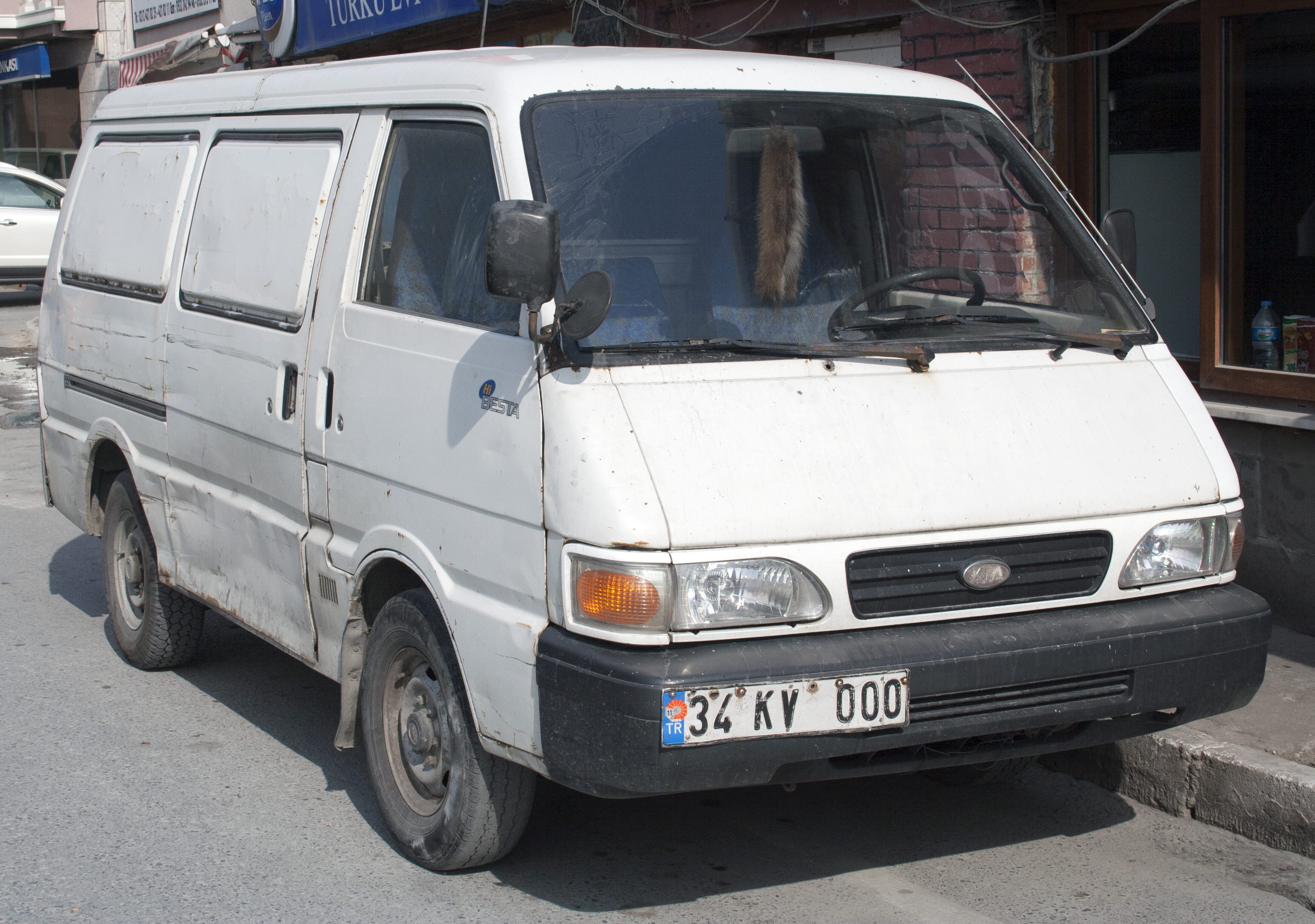 Kia Hi Besta van in Hasköy, Istanbul. Not in the best of conditions.